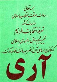 Ballot paper for Iran's referendum for establishment of Government of the Islamic Republic of Iran after 1979 Iranian Revolution. It reads YES in green.